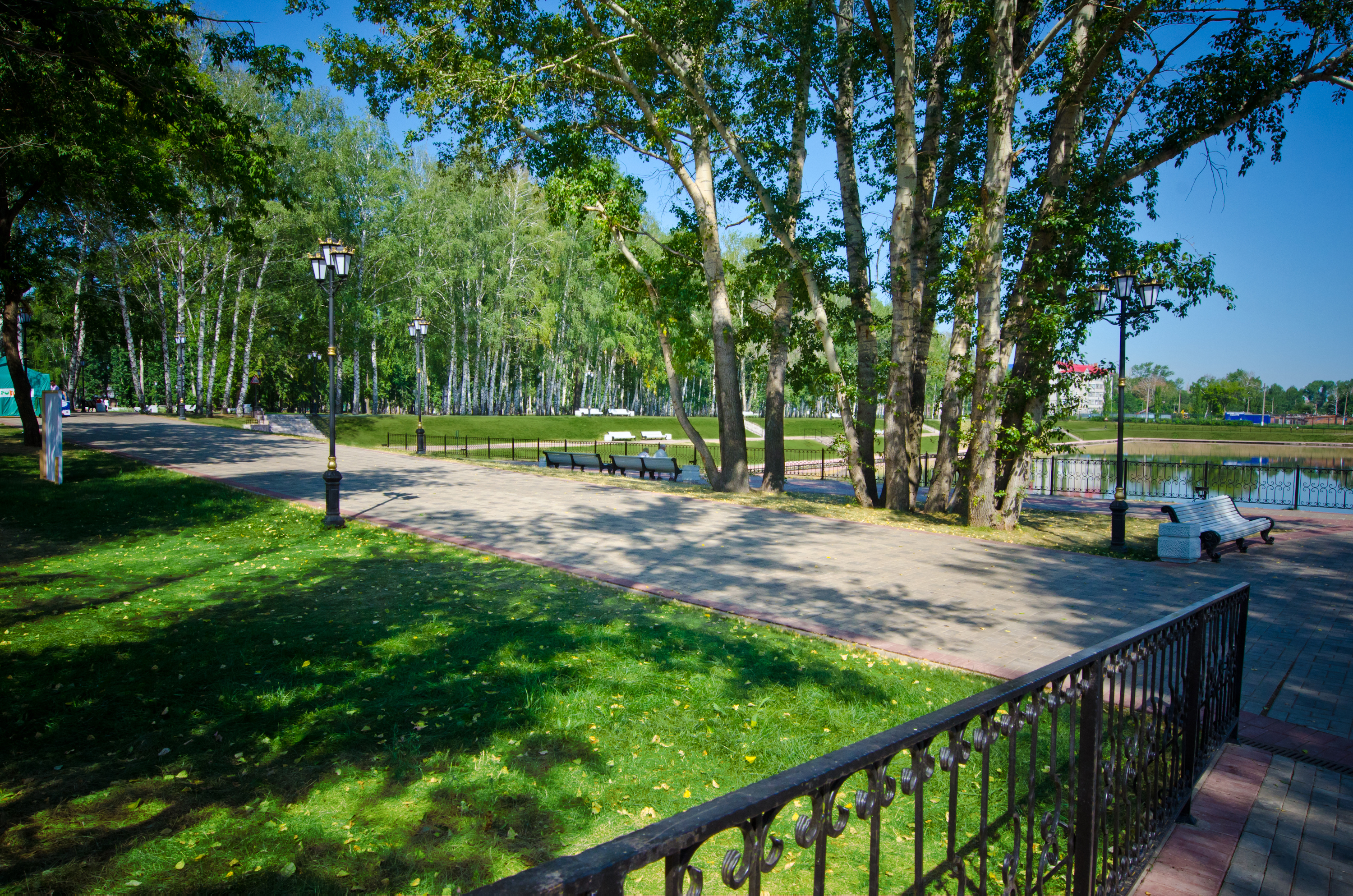 town Salavat